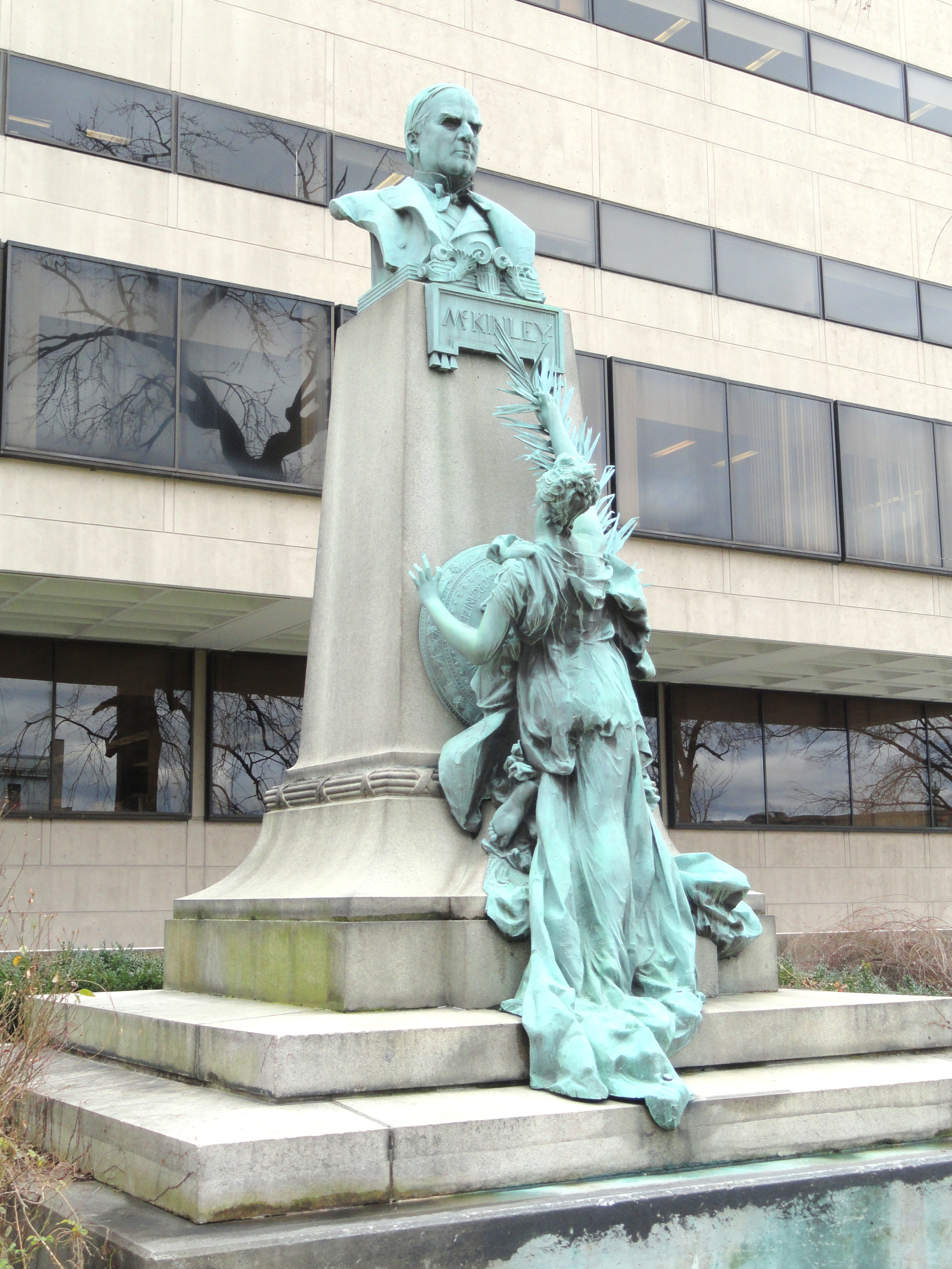 McKinley Monument by Philip Martiny (1858-1927), located beside the district courthouse in Springfield, Massachusetts. Dedicated in 1908. This artwork is in the public domain because the artist died more than 70 years ago. Smithsonian Inventories of American Painting and Sculpture, Control Number: IAS MA000891.